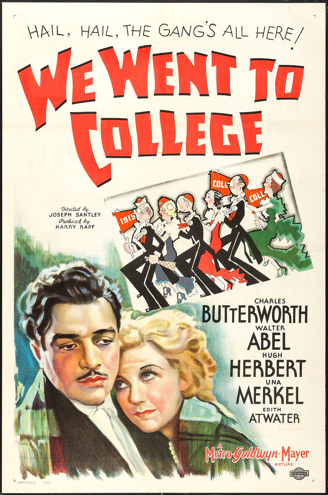 Poster for the 1936 film We Went to College. There are no copyright markings pertaining to the image as can be seen in the links above. At bottom is Made in USA and (looks like) #B319; this seems to refer to the print job of the poster. There's also s Tooker Litho Company logo-they printed the poster.